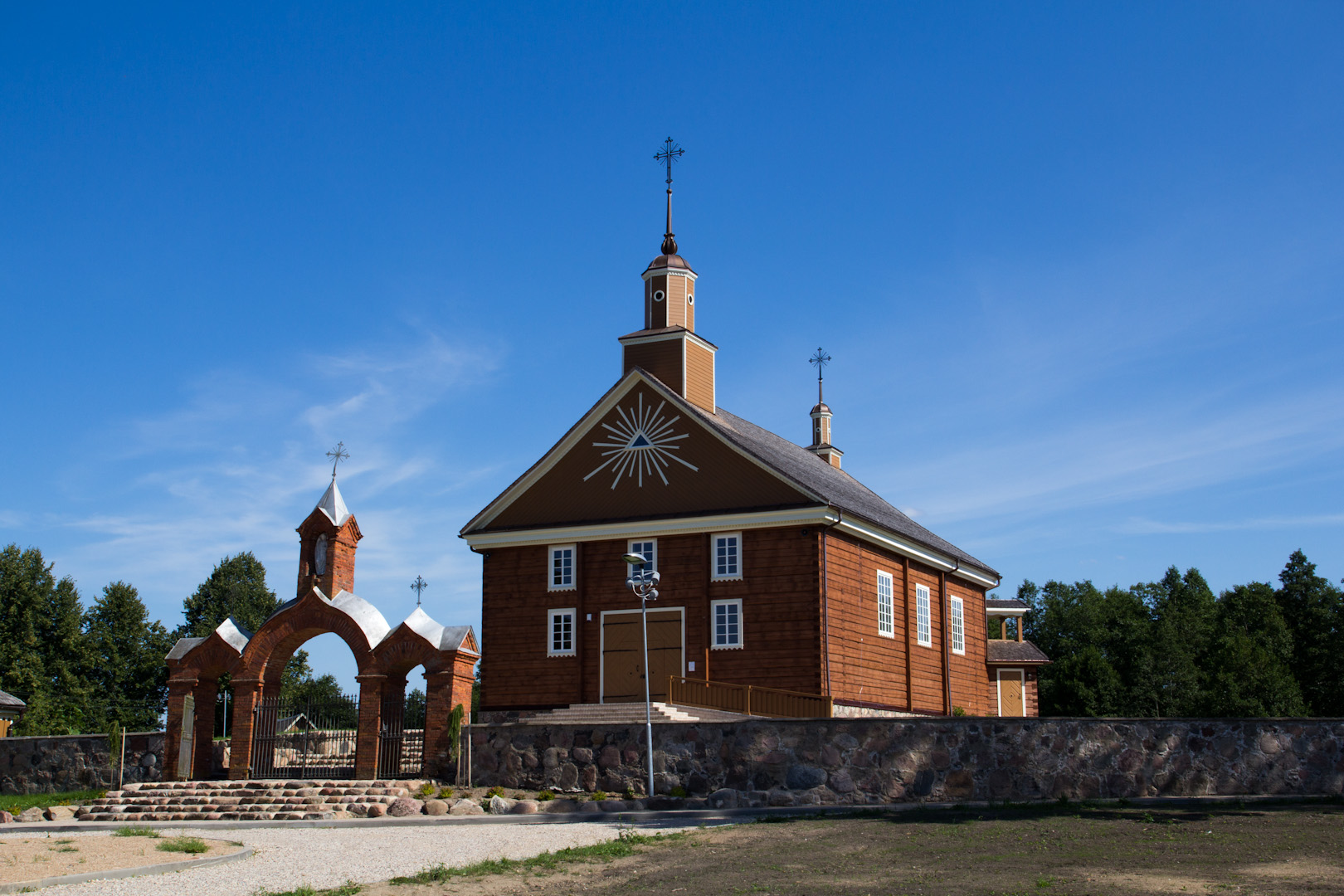 Labanoras church after restoration